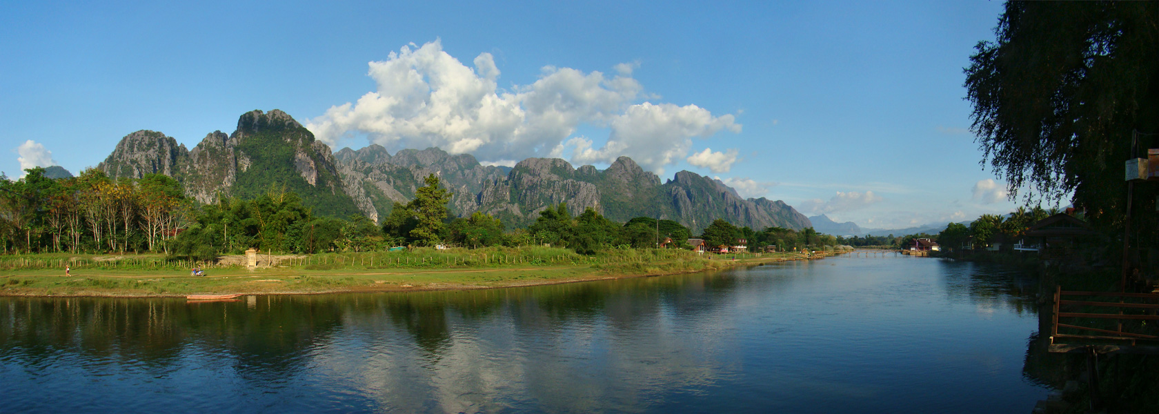 Nam Song river and karst mountains in Vang Vieng, Vientiane Province, Laos.